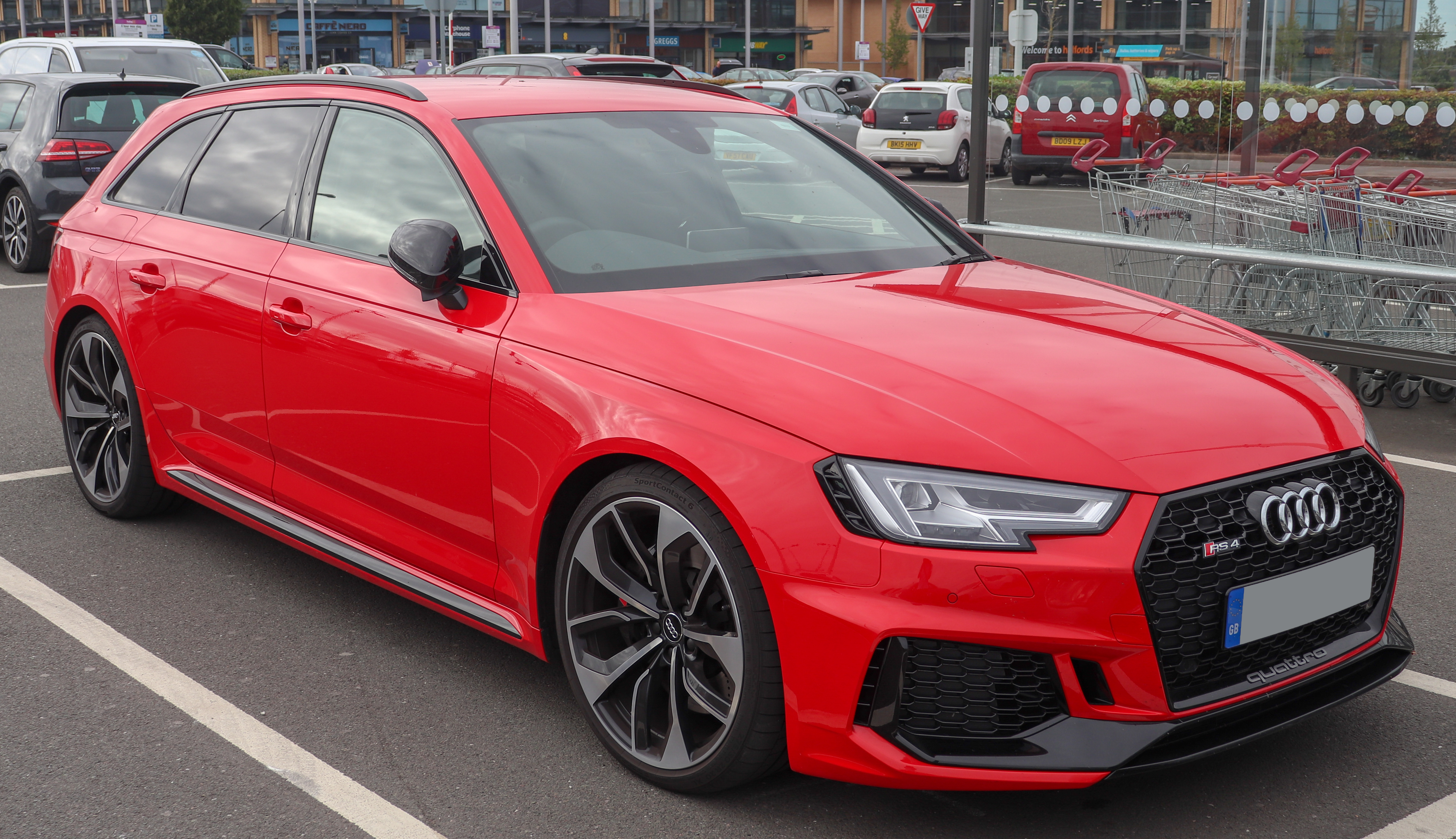 2018 Audi RS4 TFSi Quattro Automatic 2.9 Front Taken in Leamington Spa